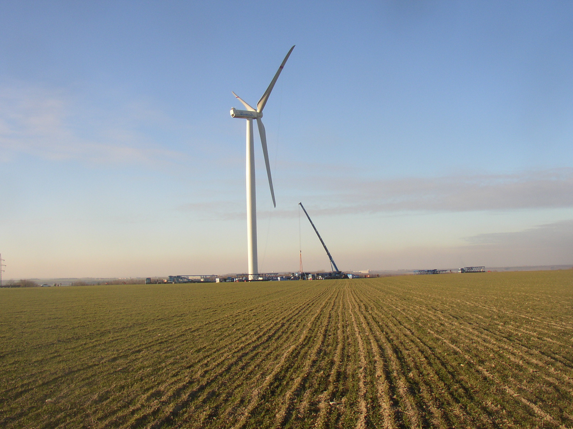 Wind farm near Pchery village, Kladno District, Czech Republic. Crane removal after completion of the western tower.